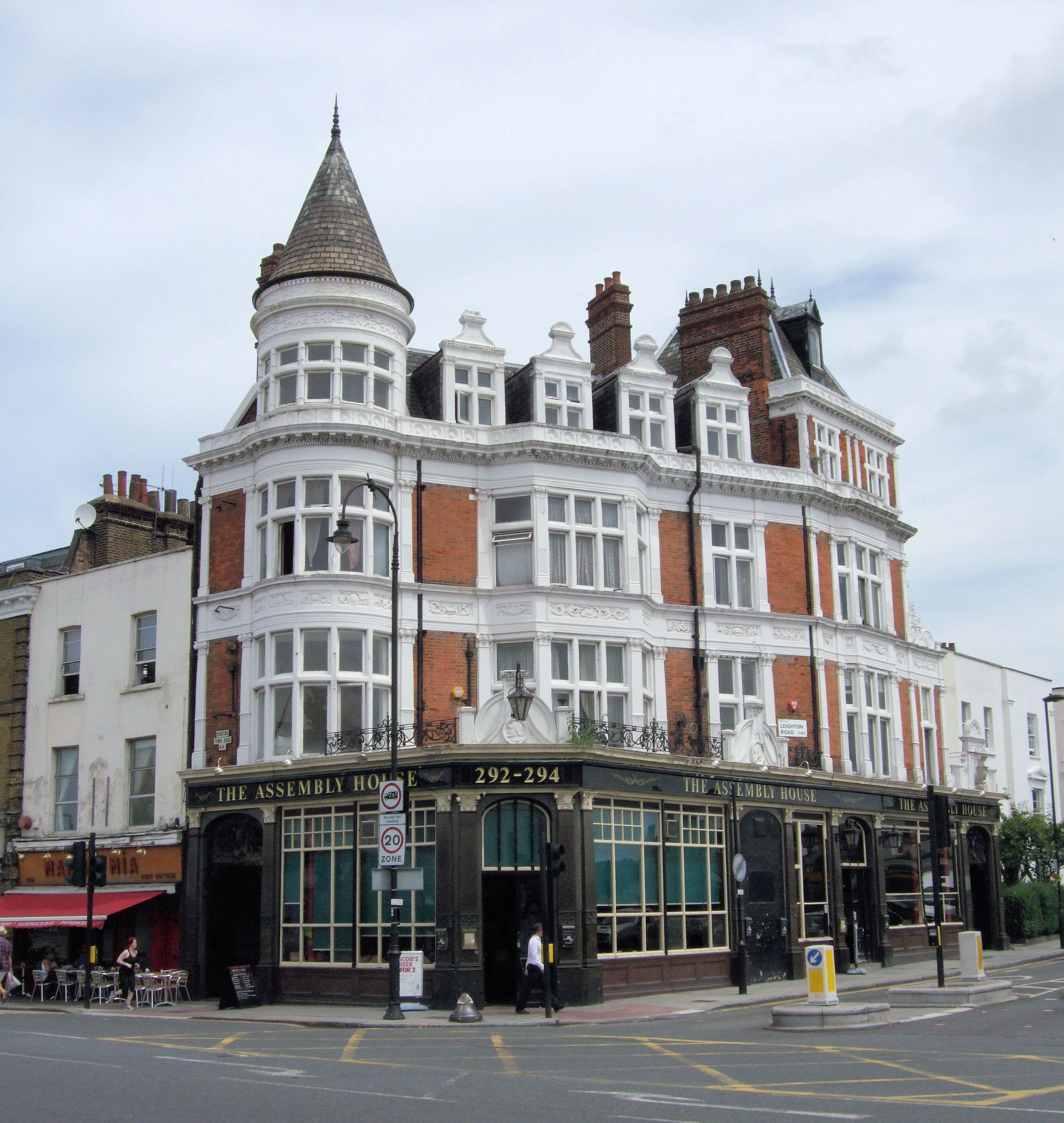 Location for the film "Villain"(1971) starring Richard Burton.